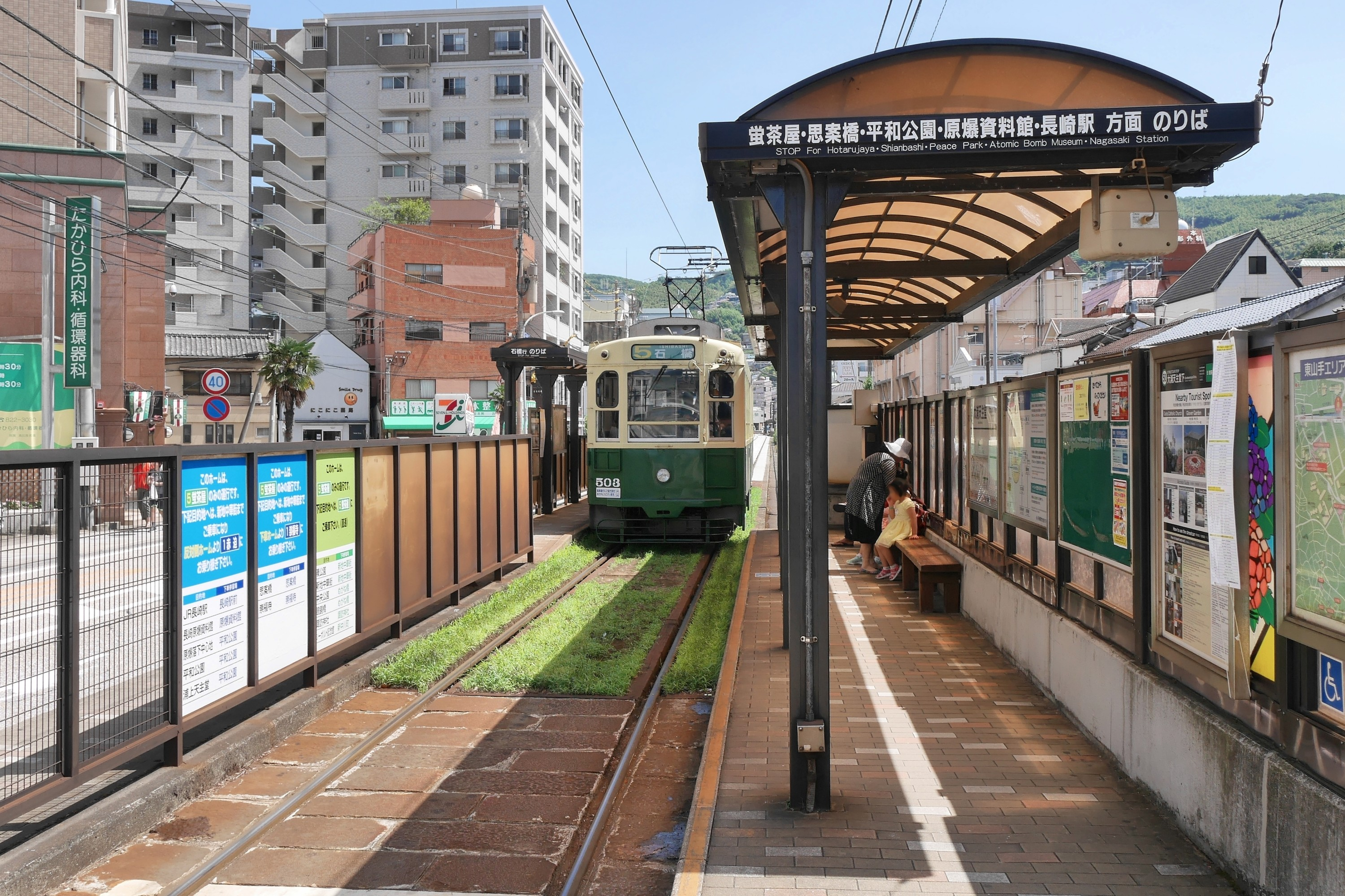 Oura Cathedral Tramstop